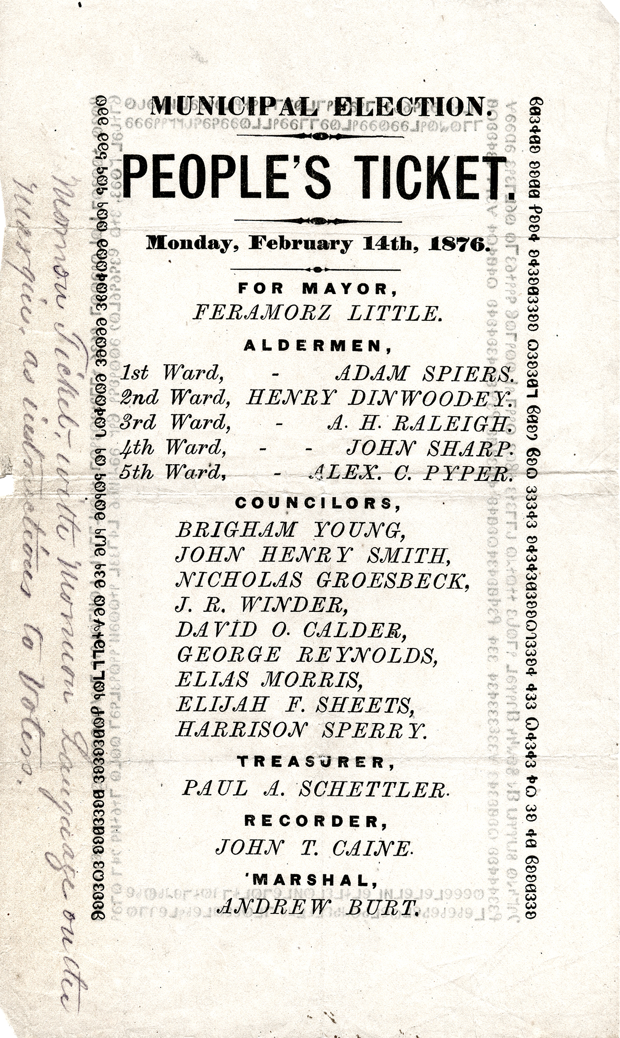 This is a piece of ephemera handed down to me, going back to my GGG Grandfather, J.H. Greene and has his annotation in the margin. It is a small flyer promoting "the Peoples Ticket" for the municipal elections circa 1876, Salt Lake City, Utah. I have contacted the LDS Church to find out more about this. Note the script along the edges written in the Deseret alphabet. The People's Party of Utah was a late 19th century political party in the Utah Territory that was backed by The Church of Jesus Christ of Latter-day Saints in order to oppose the Liberal Party of Utah, which was backed by anti-Mormons.